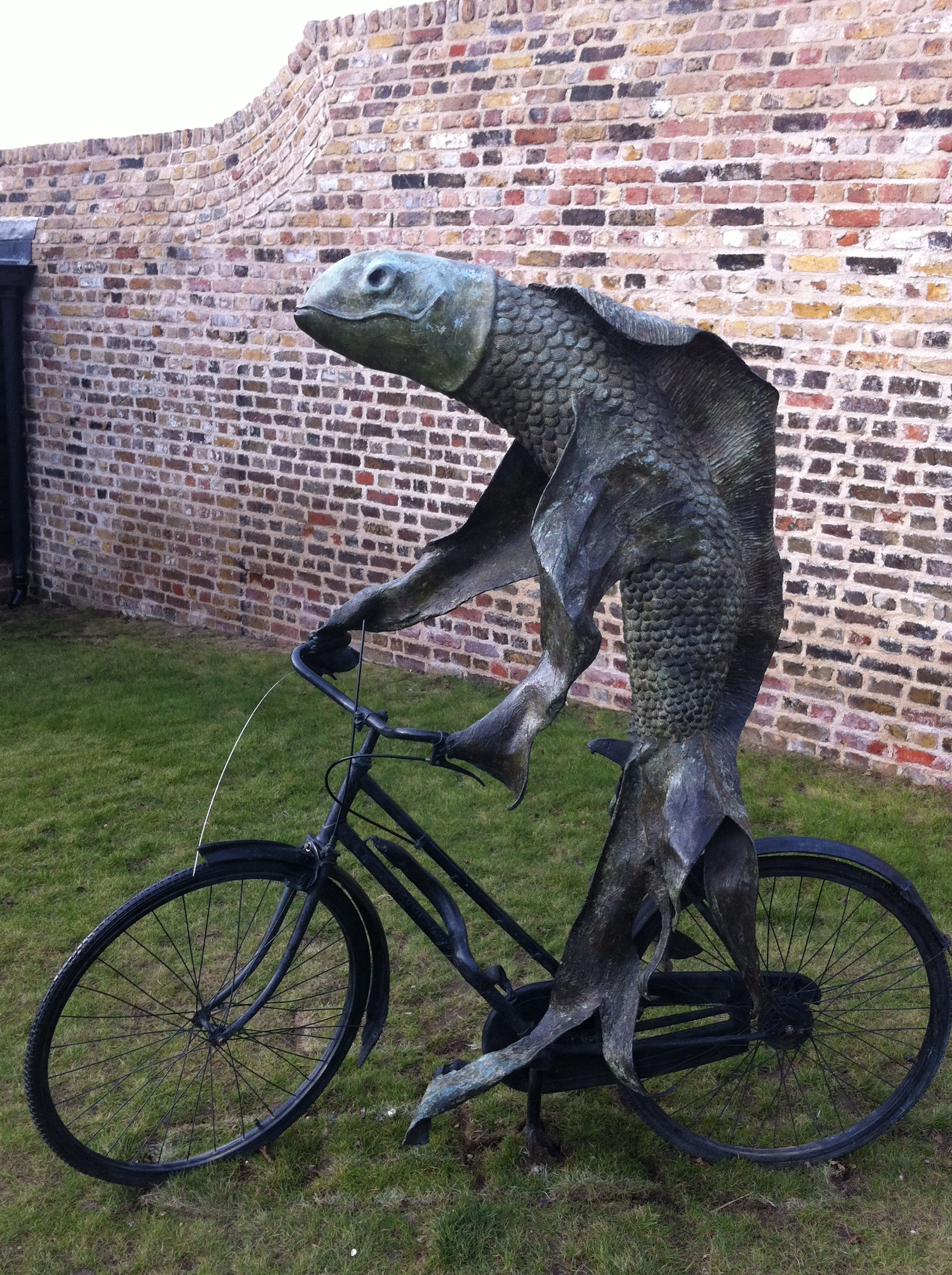 Artwork at High House Production Park